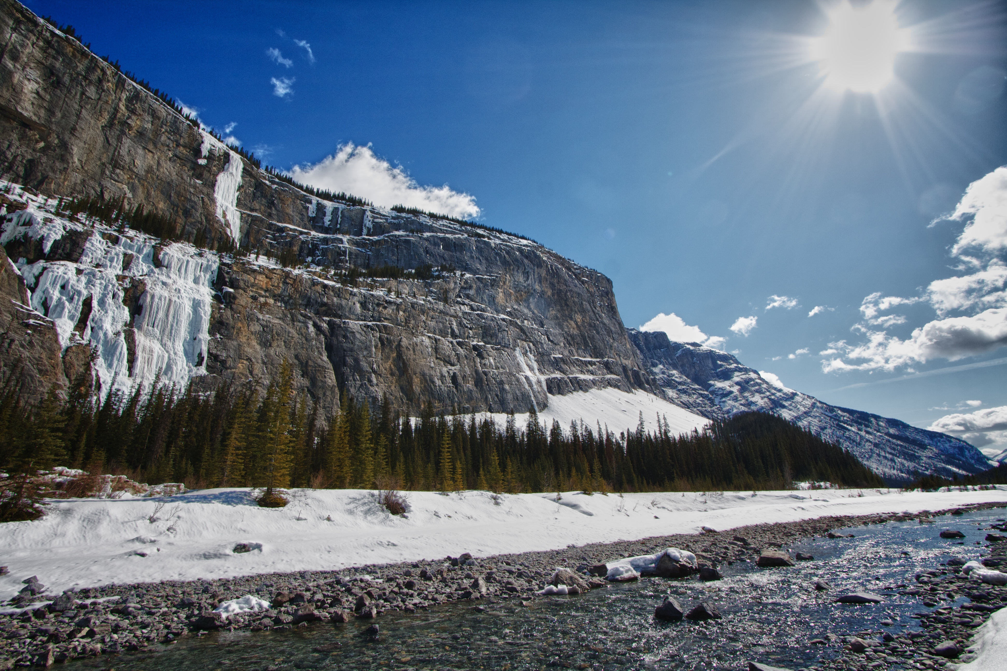 Weeping Wall on the Athabasca River, _MG_5373_HDR Banff